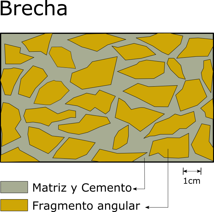 Representative scale drawing of a sedimentary gap section, distinguishing the matrix and fine-grained mineral cement, acting as a glue between the angular fragments, and where the angular fragments are formed by mechanical weathering that have not been transported very far from the site of their weathering.